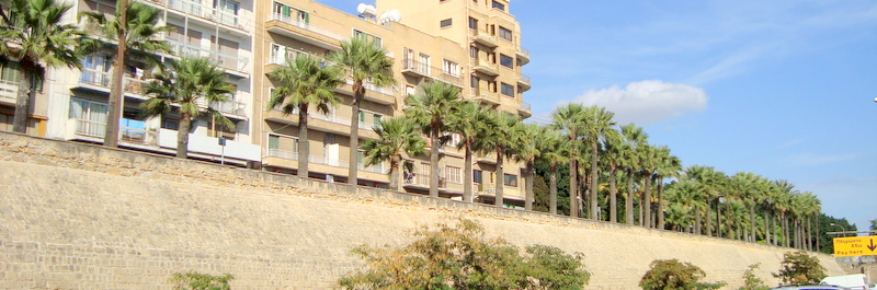 The Venetians ruled Cyprus from 1489 to 1571. Nicosia walls is was built to defence the Nicosia which was ruled by Venetians from foreign conquerers.